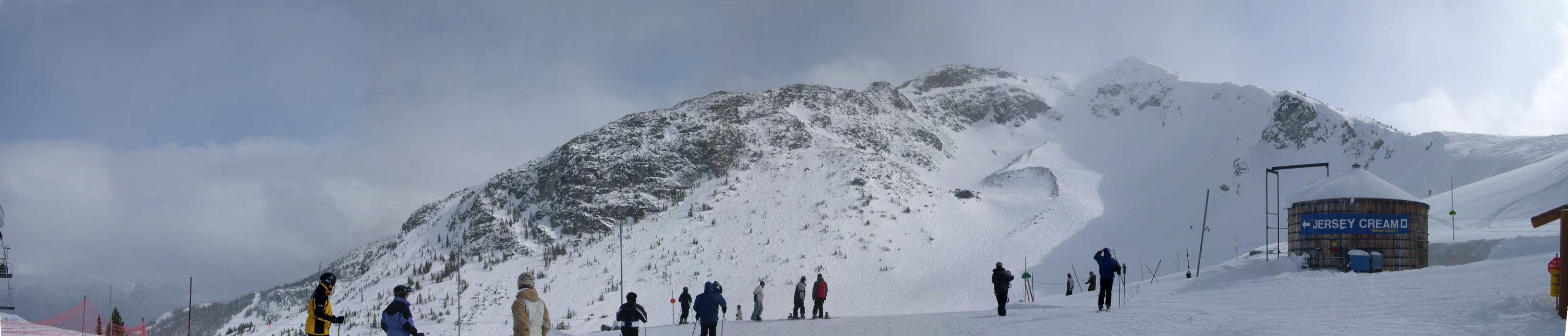 Original photograph. Taken in series, stitiched using panoramic software. Jersey Cream Whistler BC, Canada.